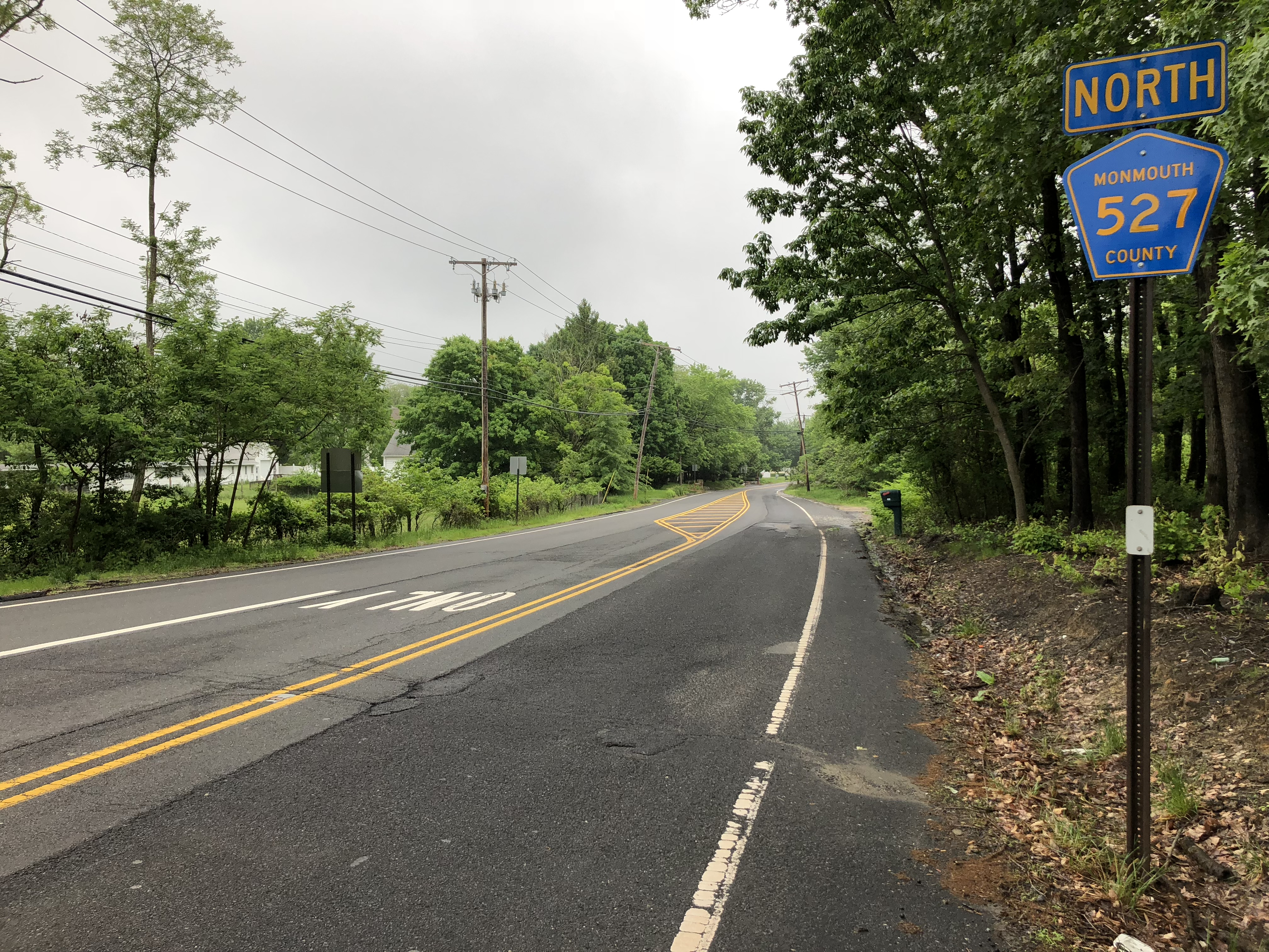 View north along Monmouth County Route 527 (Sweetmans Lane) at Monmouth County Route 527 Alternate (Smithburg Road) and Monmouth County Route 1 (Sweetmans Lane) in Manalapan Township, Monmouth County, New Jersey